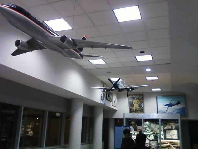 Aircraft models near Aviation History display at Charlotte/Douglas International Airport.